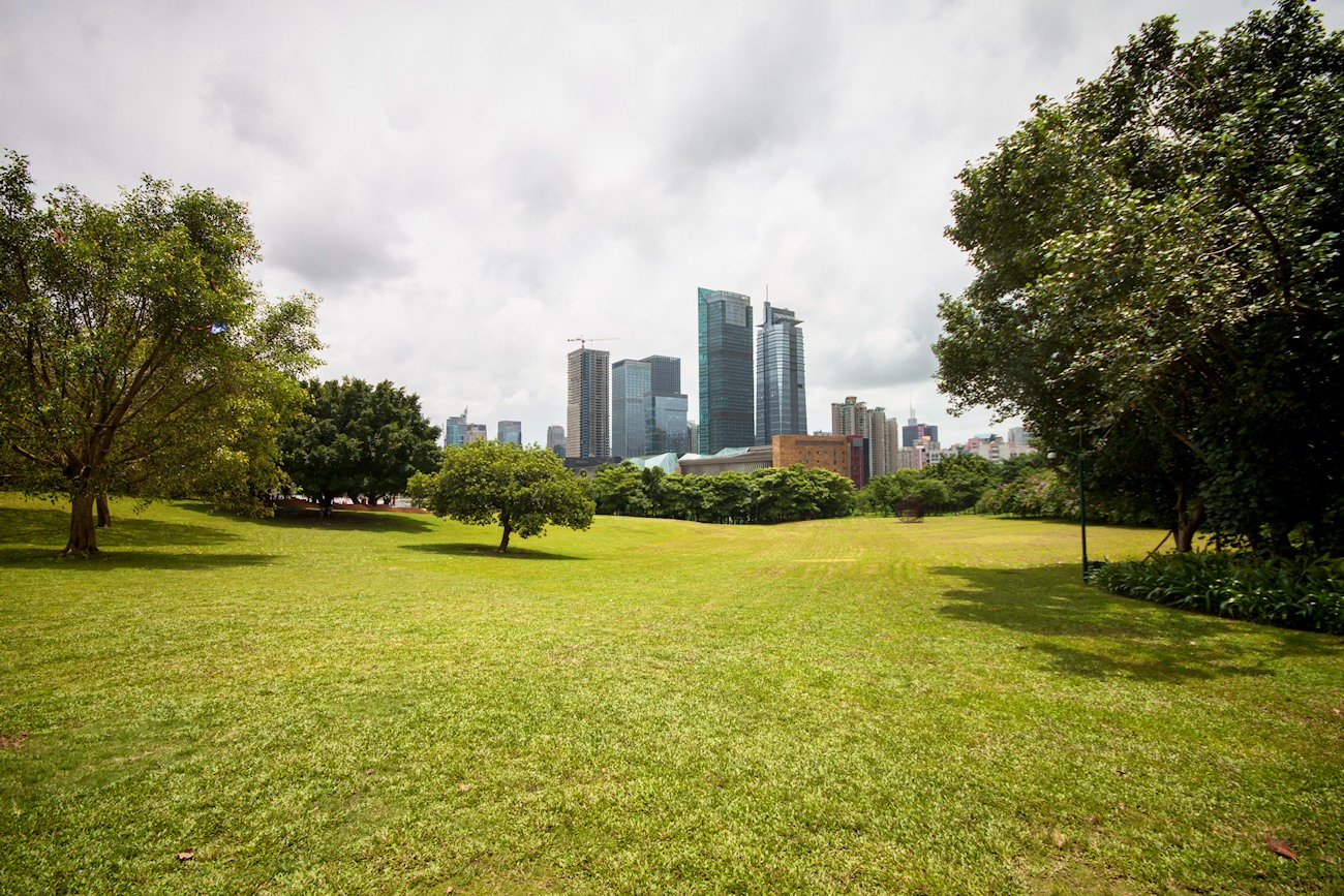 Lianhuashan Garden